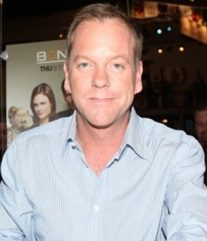 Kiefer Sutherland after signing an autograph